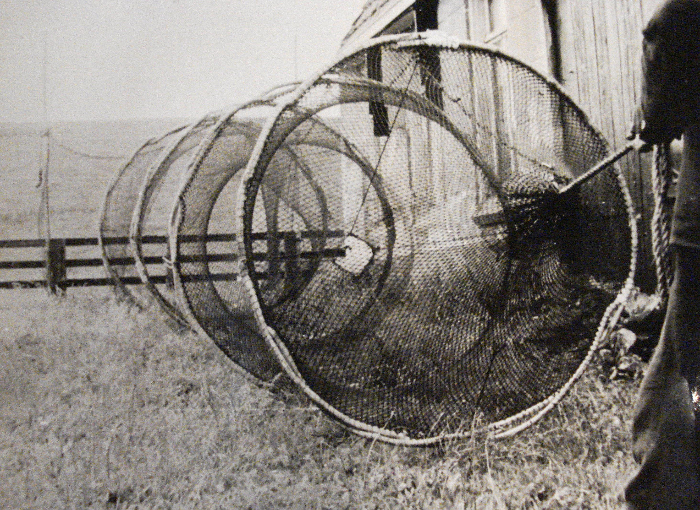 Frisian fish trap drying